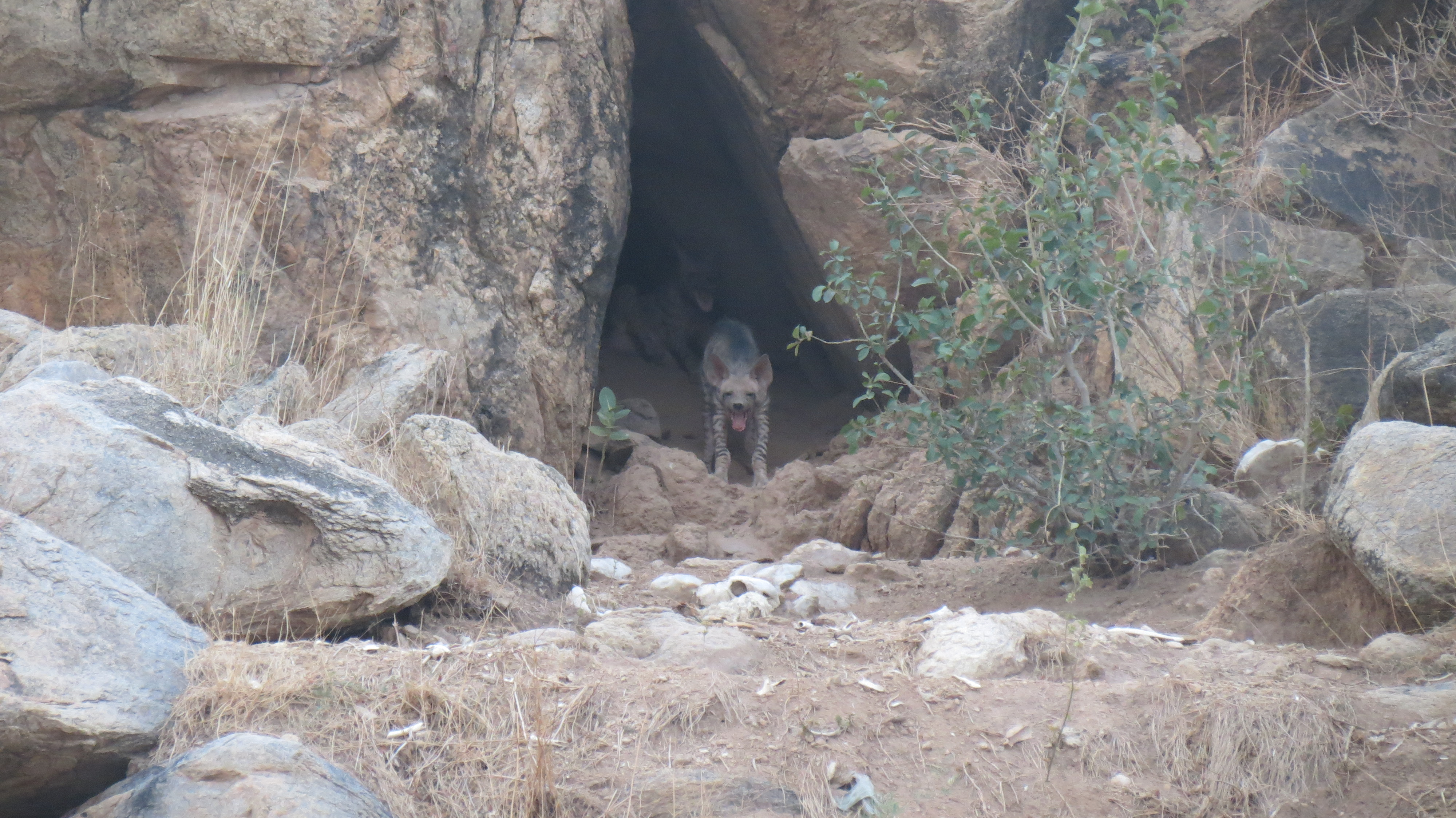 Indian forests and mammals